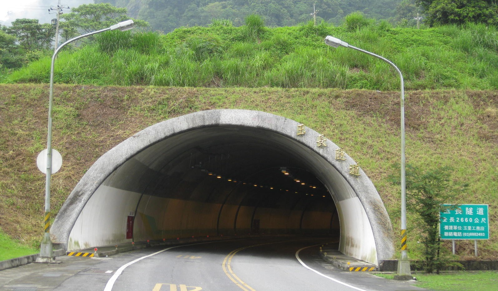 This picture shows the west portal of Yuchang Tunnel on the Yuchang Highway in Taiwan.